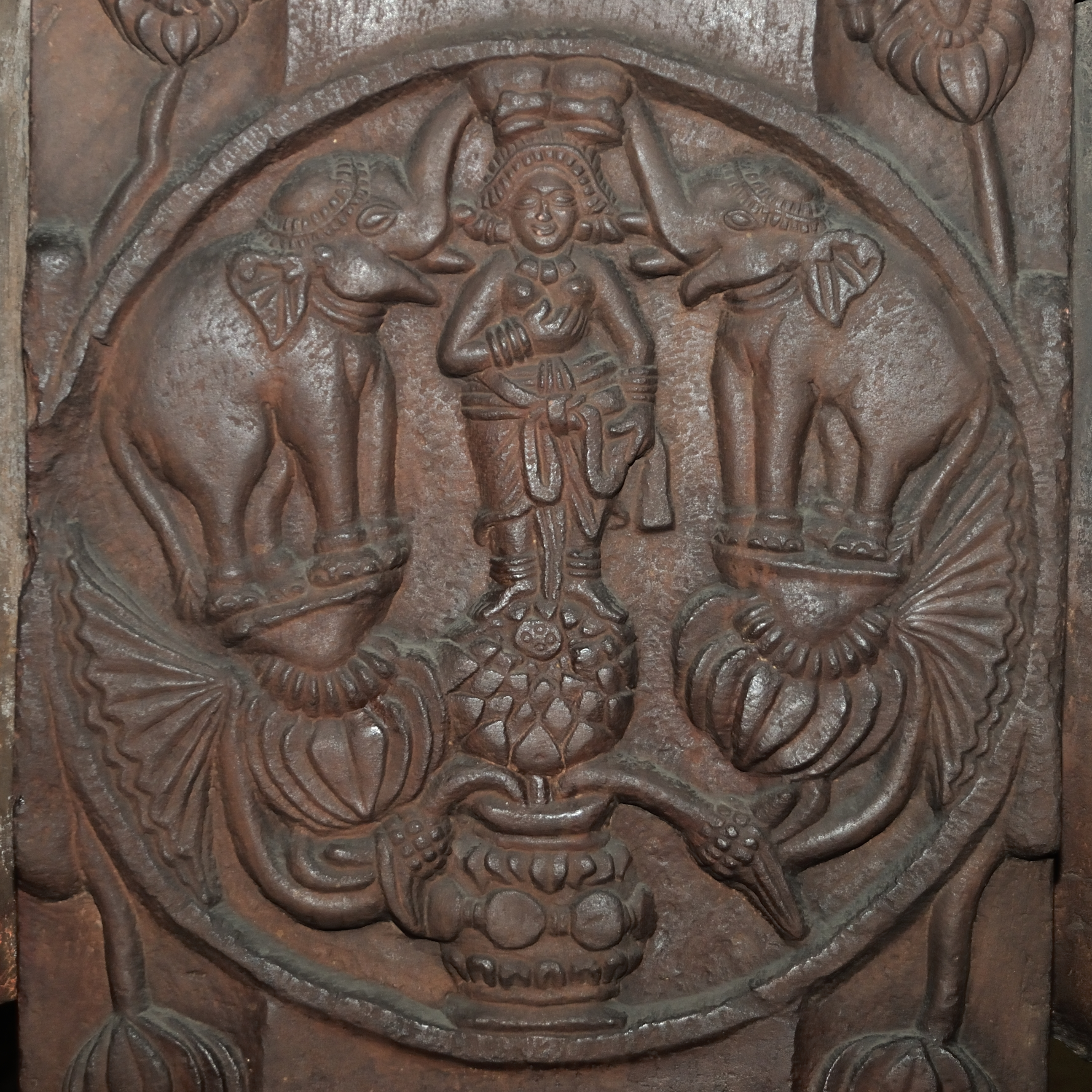 Photographed at the Bharhut Gallery of Indian Museum, Kolkata.